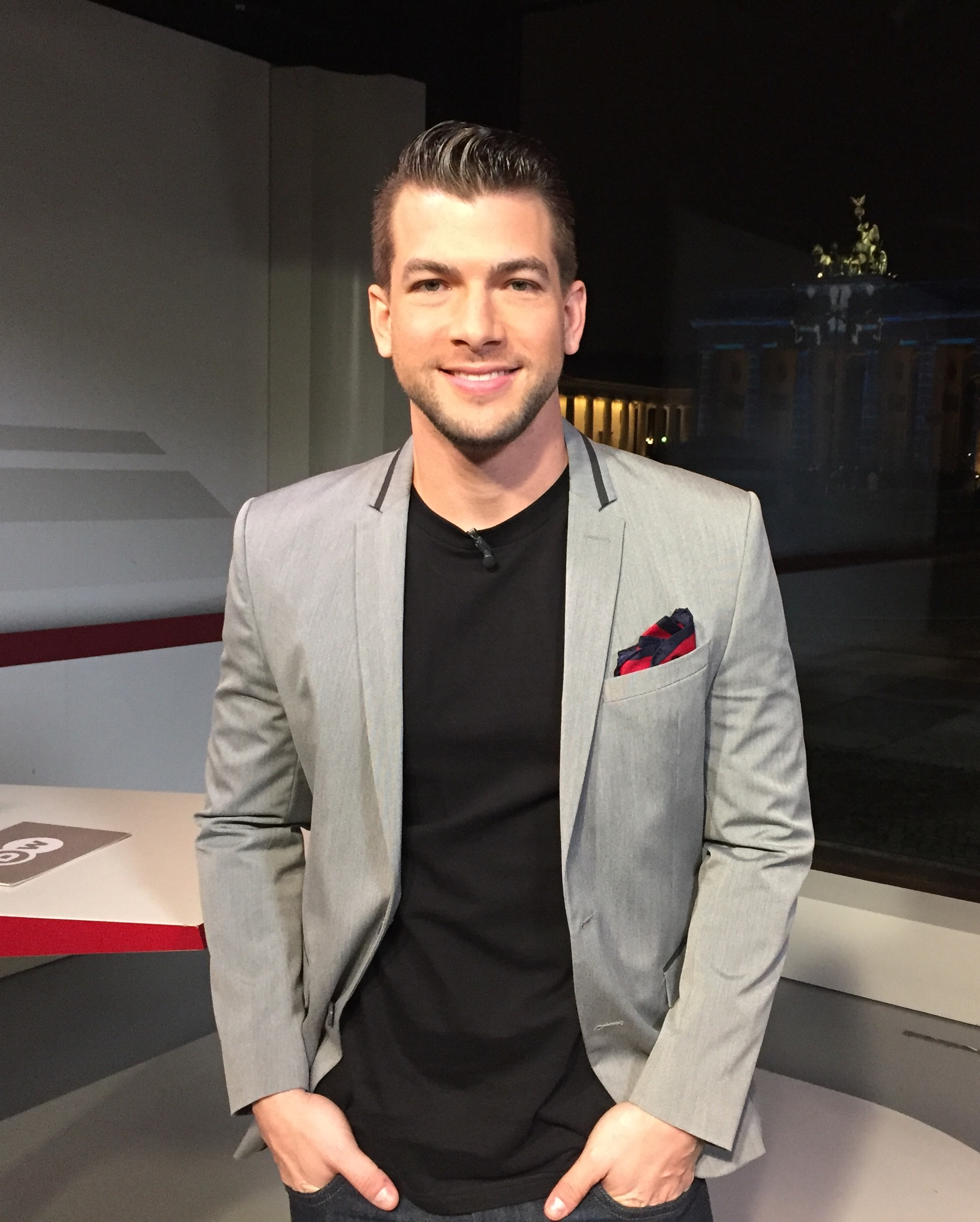 TV Show Host Carlos McConnie on the set of Euromaxx in Berlin.